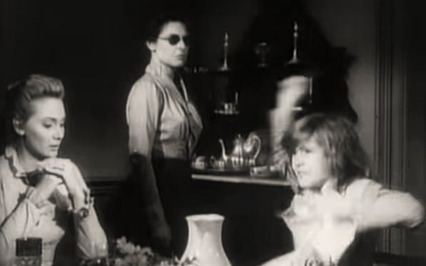 L. to R. : Inga Swenson, Anne Bancroft & Patty Duke in The Miracle Worker - trailer (cropped screenshot)